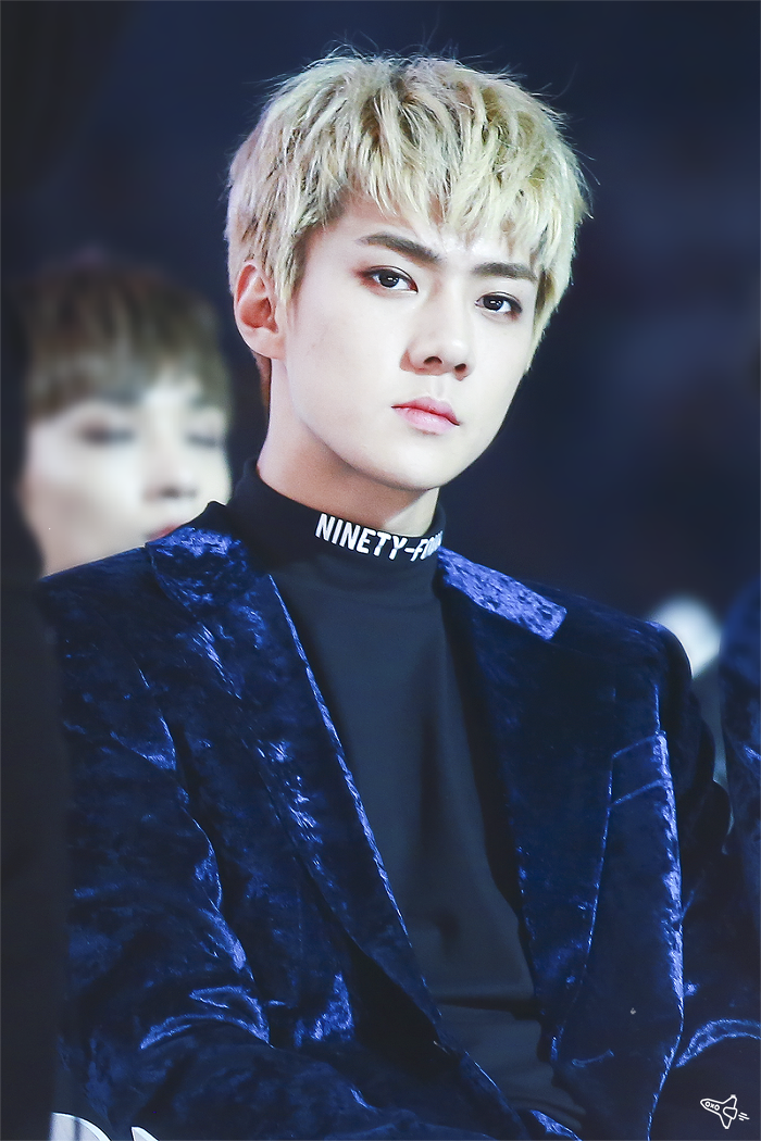 Oh Se-hun at Melon Music Awards on November 19, 2016.